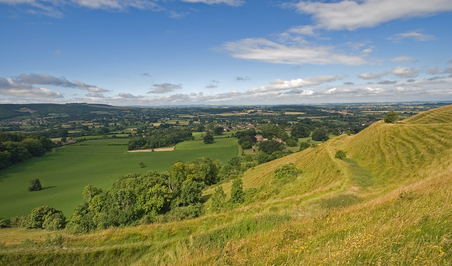 Child Okeford and the Blackmore Vale seen from Hambledon Hill, Dorset, England, UK.